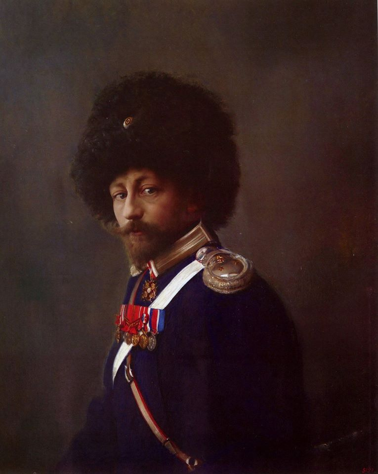 Graf Komarovskiy Pavel Evgrafovich (1869-1907)